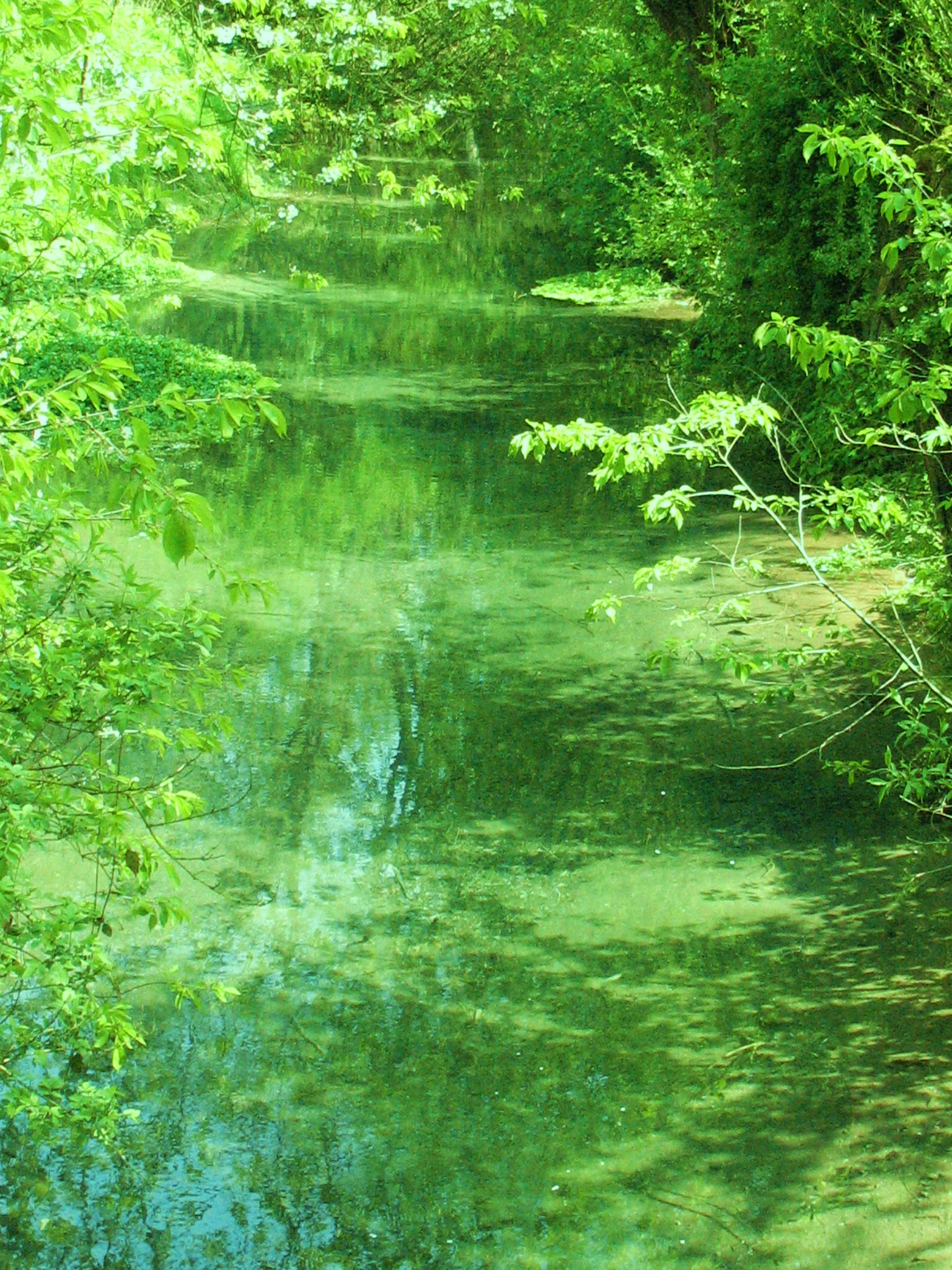 Source de la rivière Hallue, apparaissant dans la végétation ; photo depuis le pont de Vadencourt.